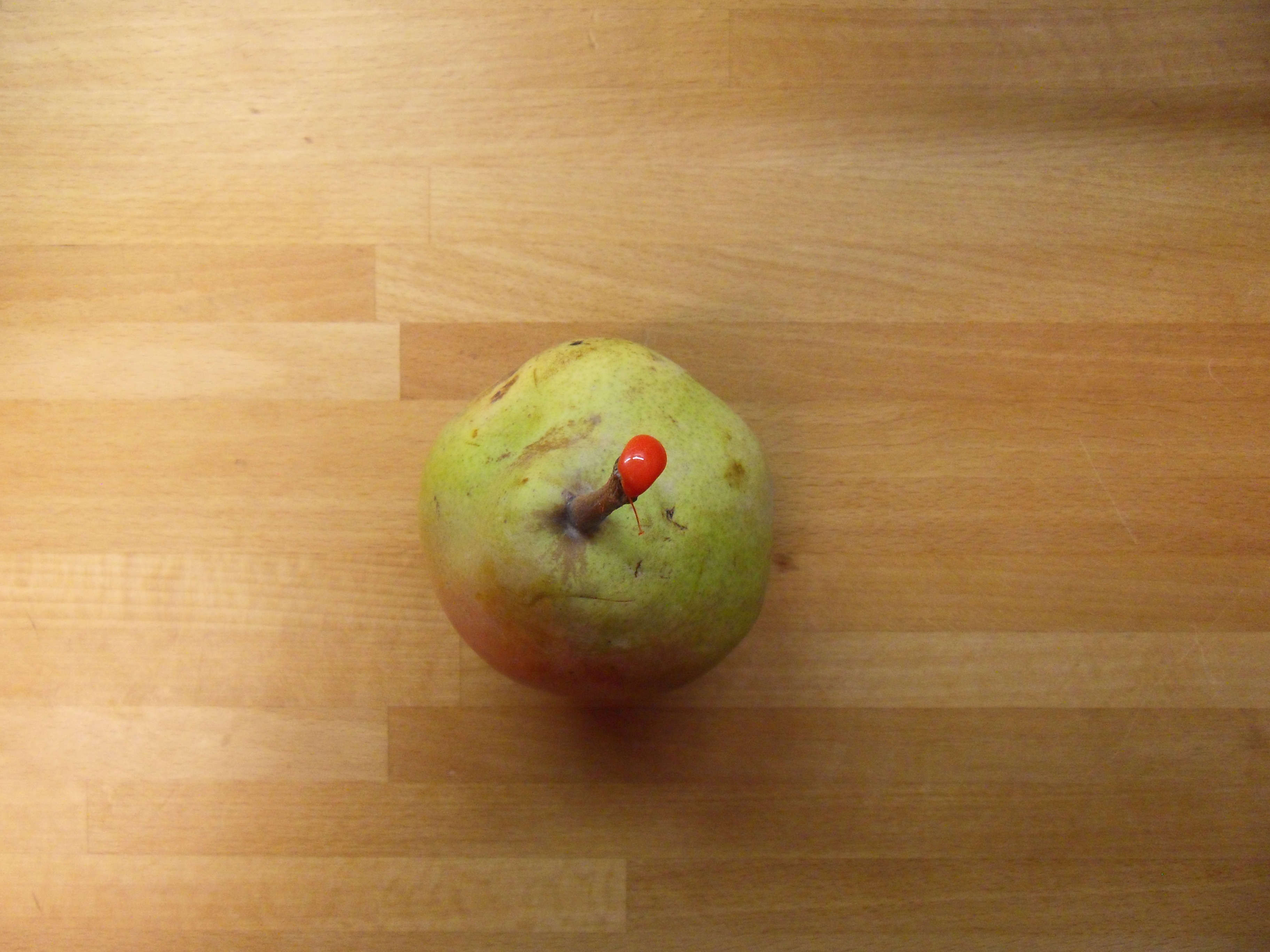 Pyrus communis "Doyenné du Comice" with sealing wax